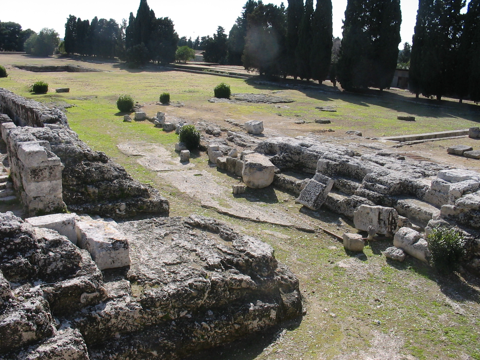 Another view of the sacrificial altar of Gerone II in Syracuse Archeological Park